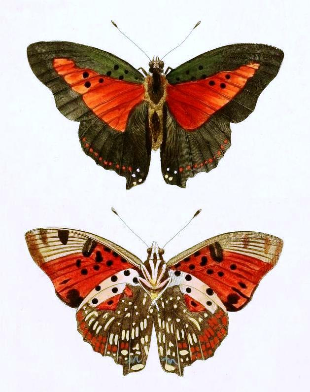 Volume 3 Plate 11 3,4 Charaxes zingha (Stoll, 1780)